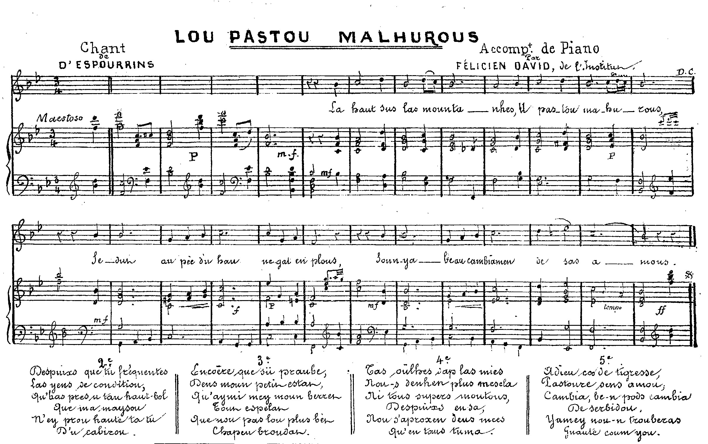 The song Lou pastou malhurous by Despourrins.